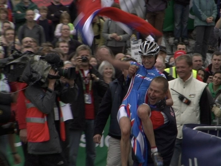 Mountainbike XC Worlds 2007 Fort William. Video screen grab. Panasonic DVX100B.